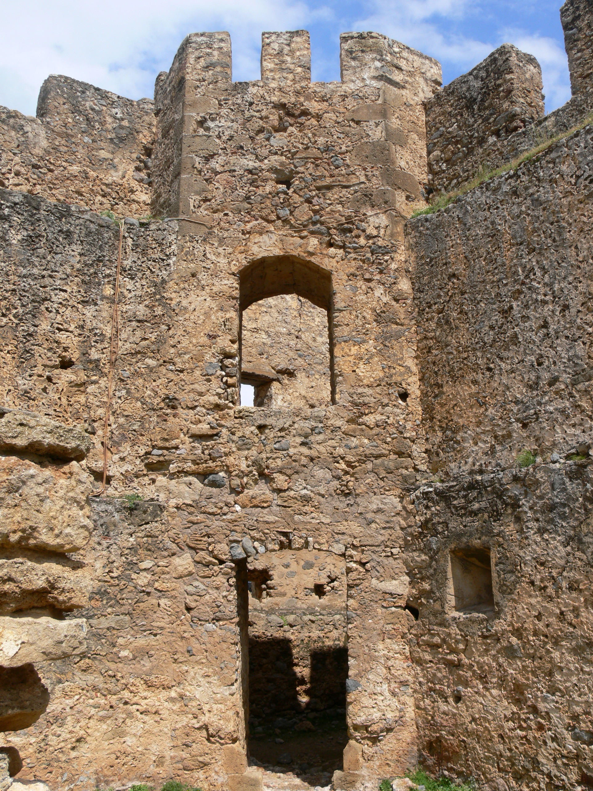 Frangokastello, Crete. Tower at the corner of the fortress ( interior )